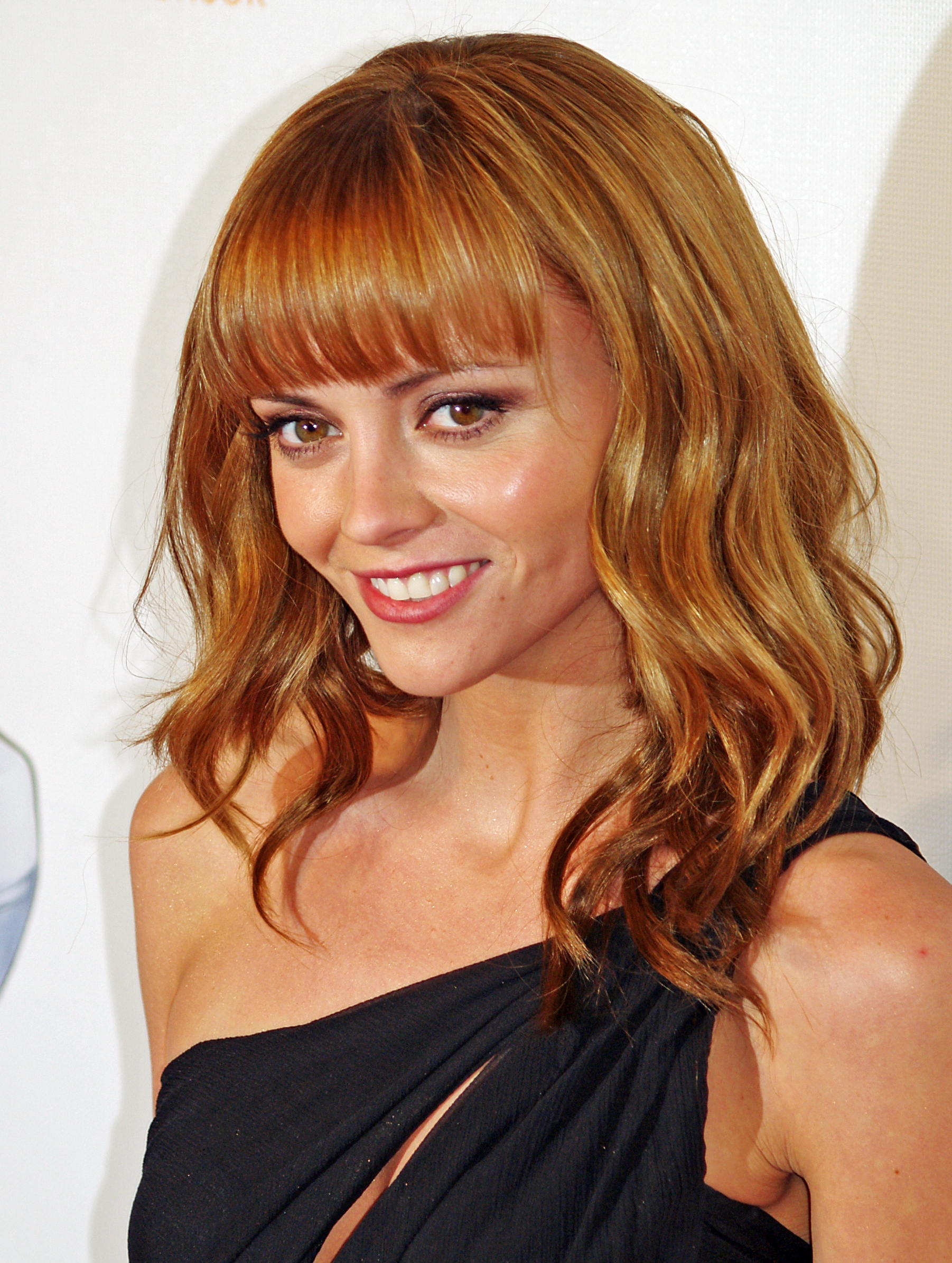 Christina Ricci at the premiere of Speed Racer at the 2008 Tribeca Film Festival.